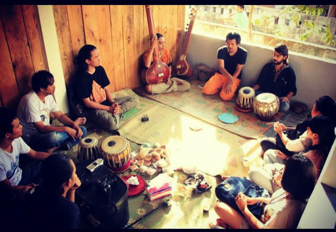 Log sanskrit session 1